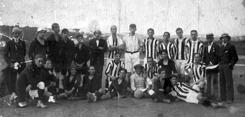 Team photograph of Clube Atlético Mineiro, a Brazilian football club from Belo Horizonte, Minas Gerais. Taken after their first trophy win. It is unclear who took the photo, the two most likely sources are someone working for the club or a reporter from a local newspaper.